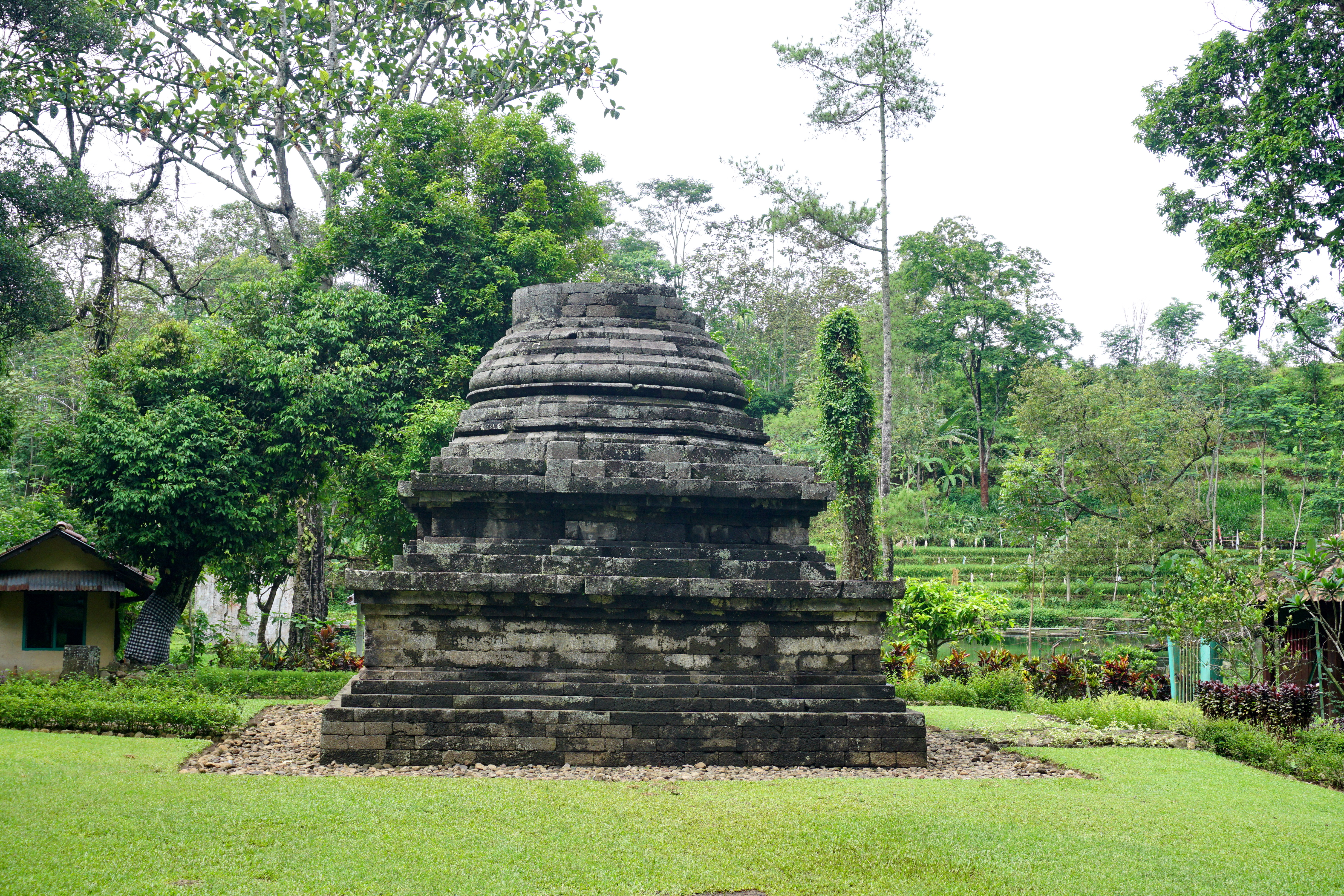 047 View from East, Candi Sumberawan, Malang Candis, East Java Malang, East Java